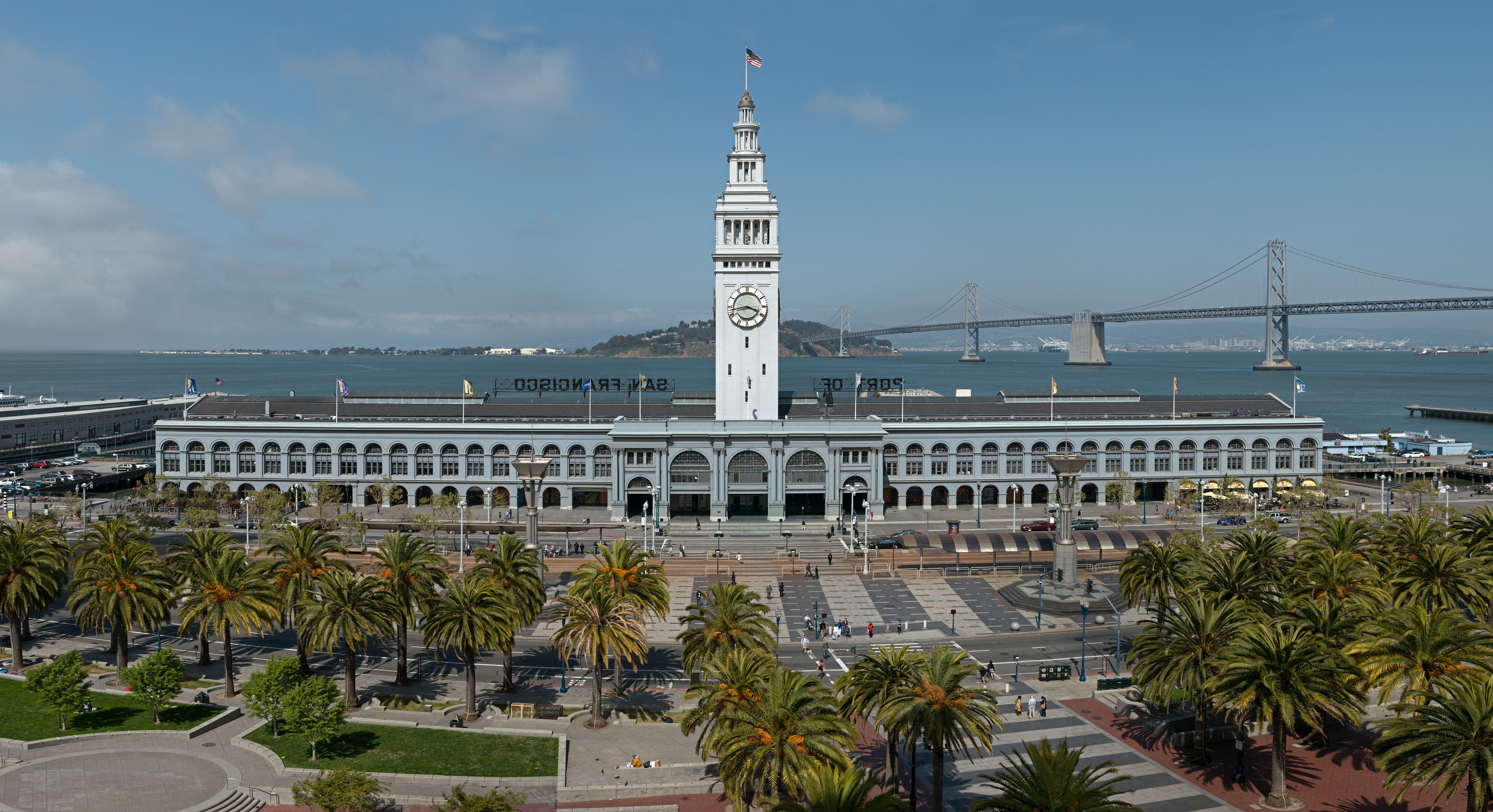 The Ferry Building is a terminal for ferries on the San Francisco Bay and an upscale shopping center located on The Embarcadero in San Francisco, California. The Bay Bridge can be seen in the background.